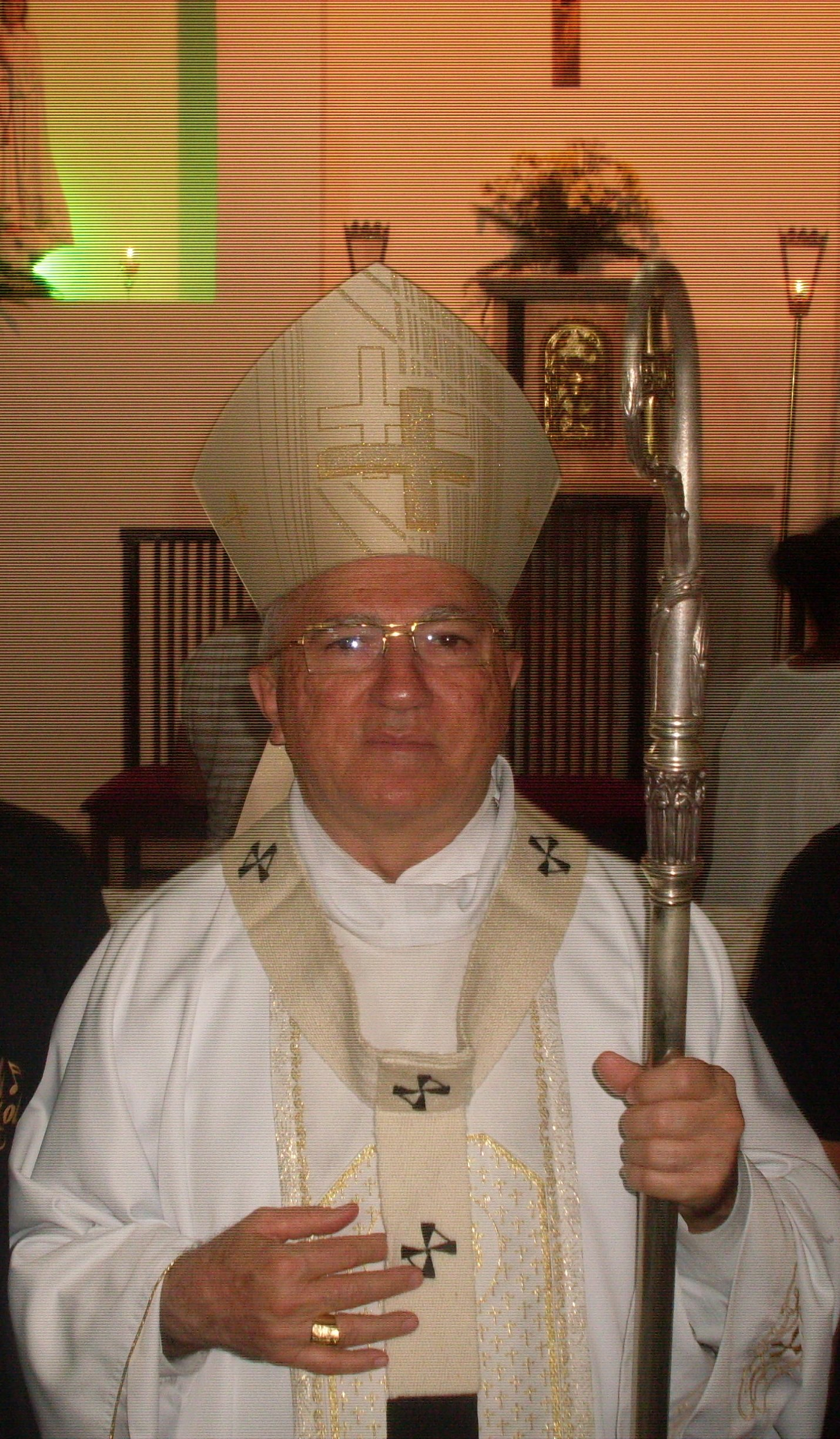 His Excellency Most Rev. Jaime Vieira Rocha, Archbishop of Natal